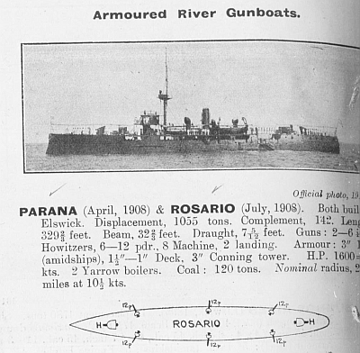 Page from the 1920 Jane's showing specifications and layout of the Argentine Navy riverine gunboats ARA "Rosario" and ARA "Paraná".